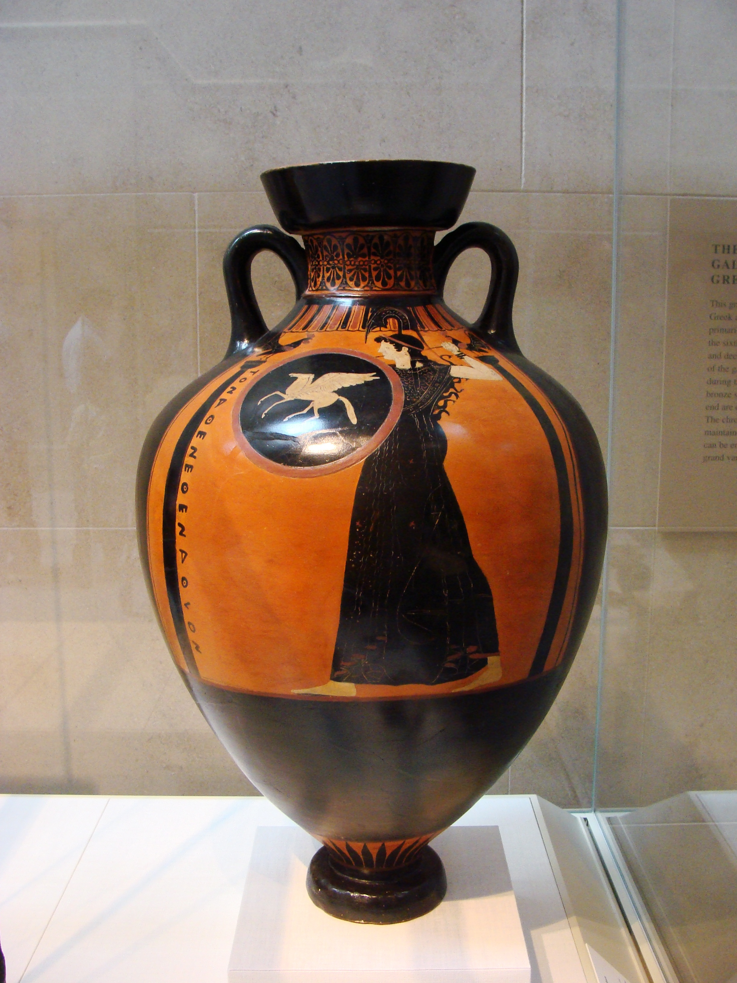 Metropolitan Museum of Art. Photo by Lucas Livingston, 13 April 2013.